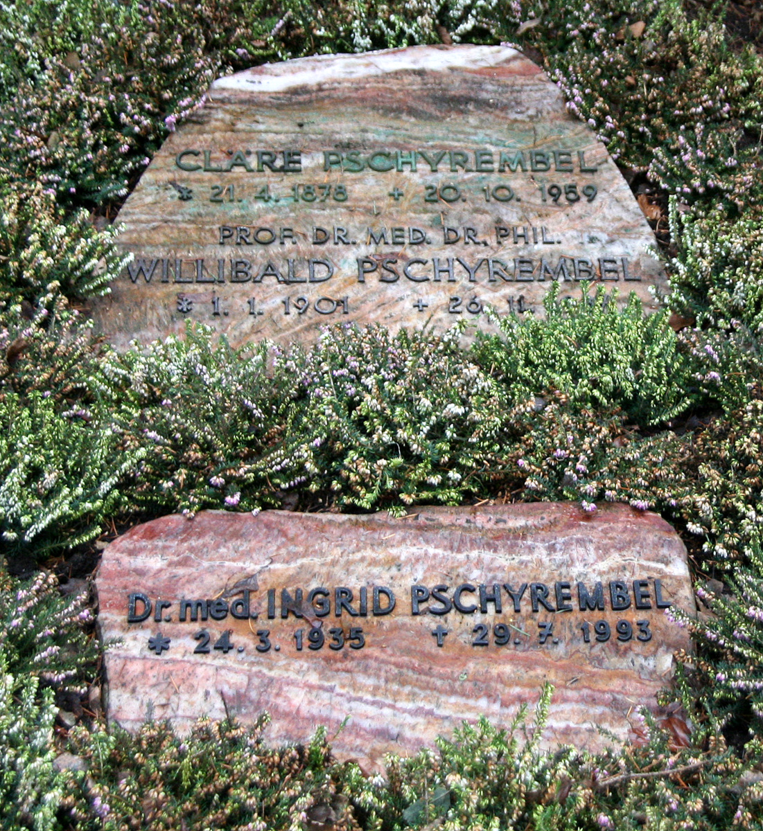 Tomb of Pschyrembel